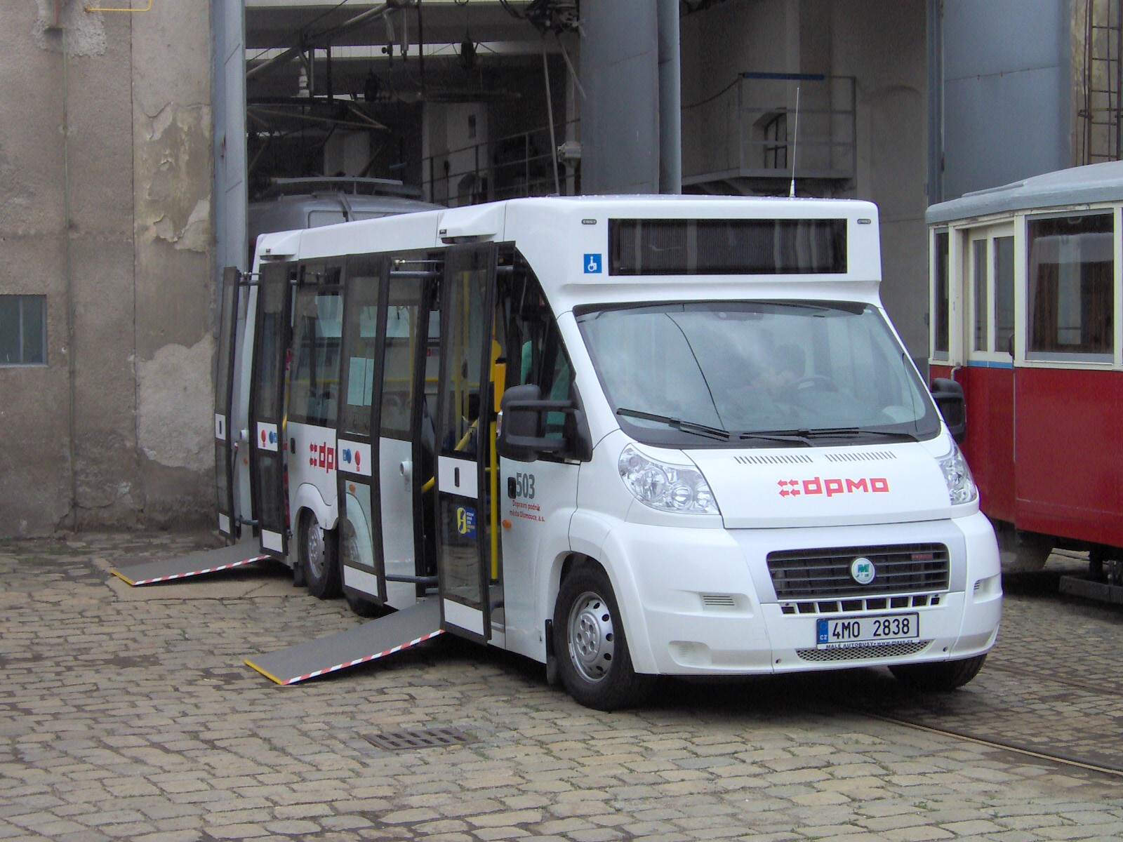 Mave CiBus ENA minibus in tram depot, Olomouc, Czech Republic.